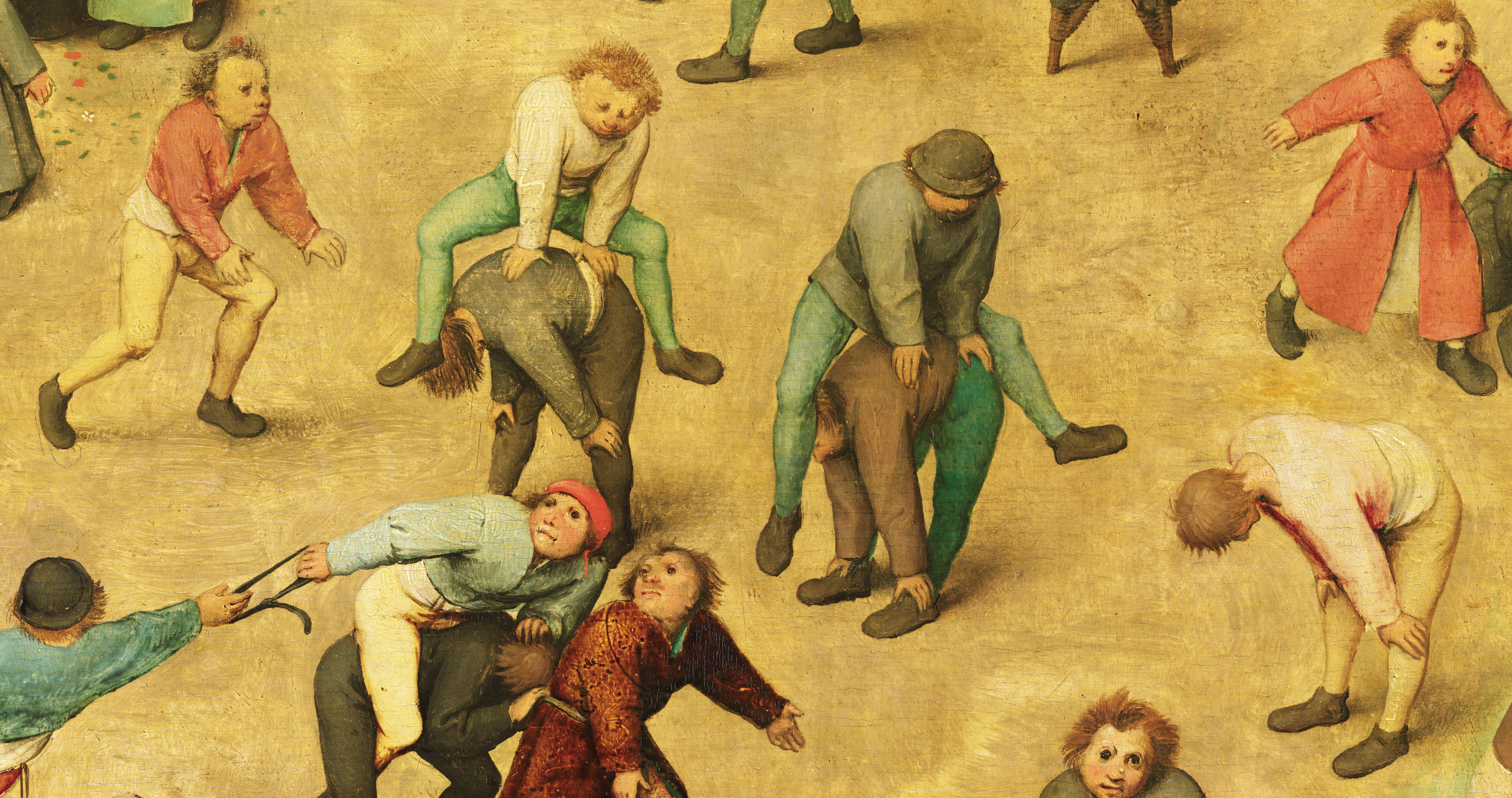 Detail from Children's Games by Pieter Bruegel the Elder